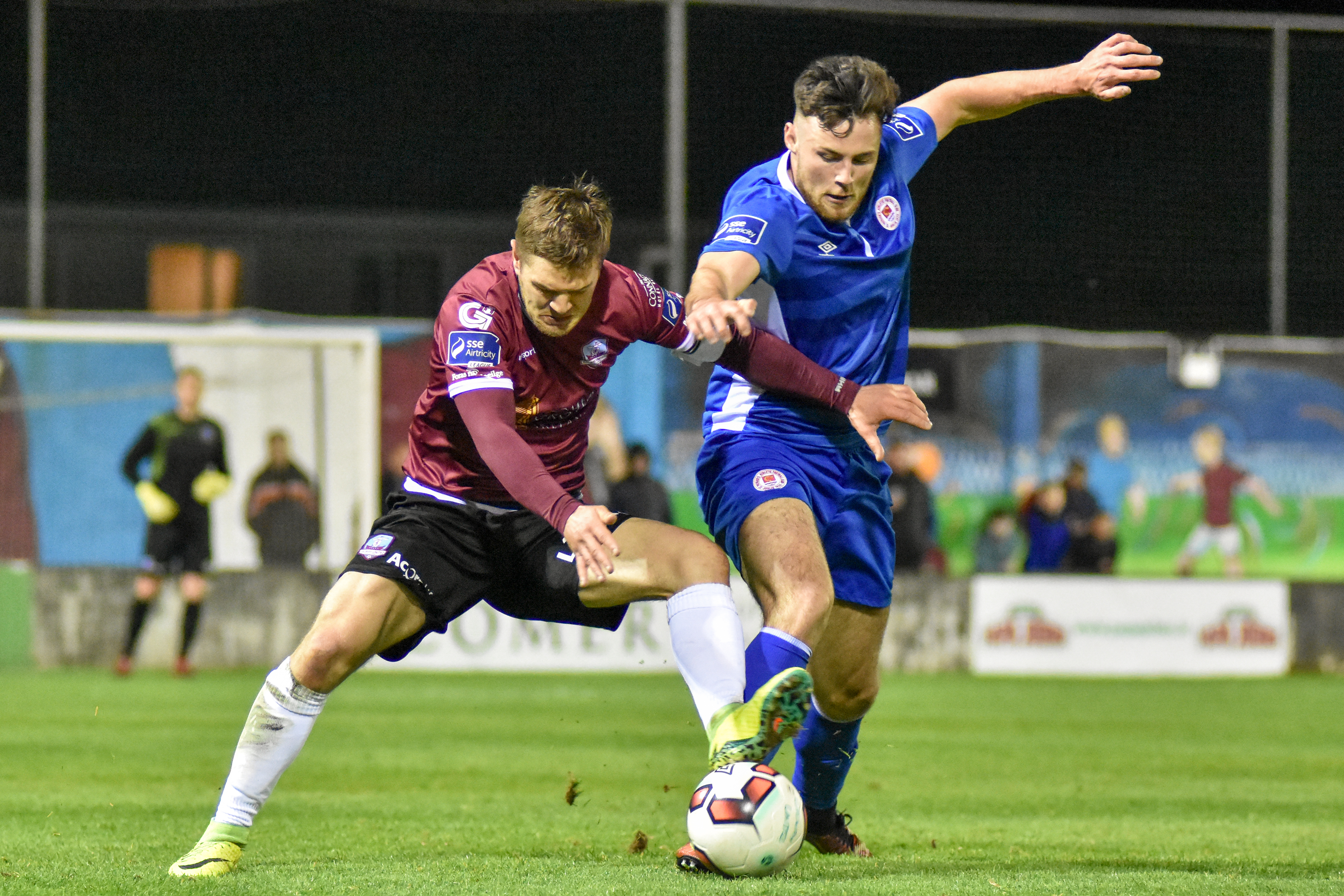 Colm Horgan (Galway United) and Josh O'Hanlon (St. Pat's) in action in the 2017 League of Ireland